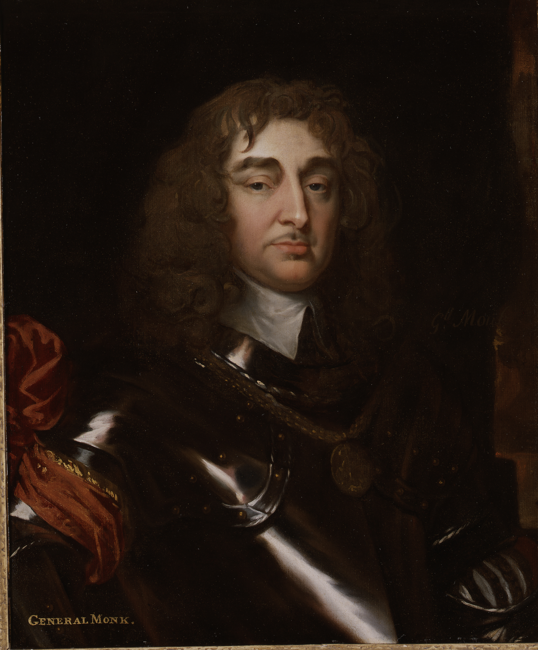 Portrait of General Monck